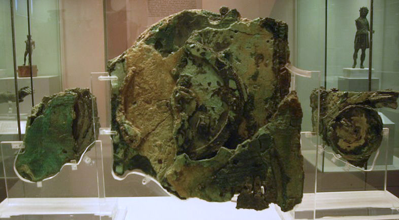 Fragments (B, A and C) of the Antikythera Mechanism.